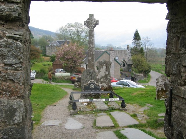 Rob Roy's Grave in Balquhidder Kirkyard Rob Roy died at home in Inverlochlarig Beg, Balquhidder, at the age of 63. He was buried in Balquhidder Kirkyard.